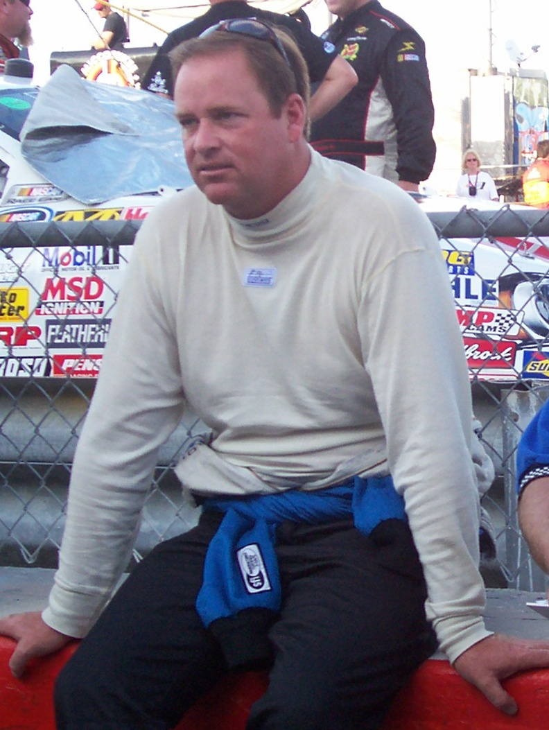 NASCAR driver Tony Raines at the 2009 Milwaukee Mile race. Personality rights warning Although this work is freely licensed or in the public domain, the person(s) shown may have rights that legally restrict certain re-uses unless those depicted consent to such uses. In these cases, a model release or other evidence of consent could protect you from infringement claims.